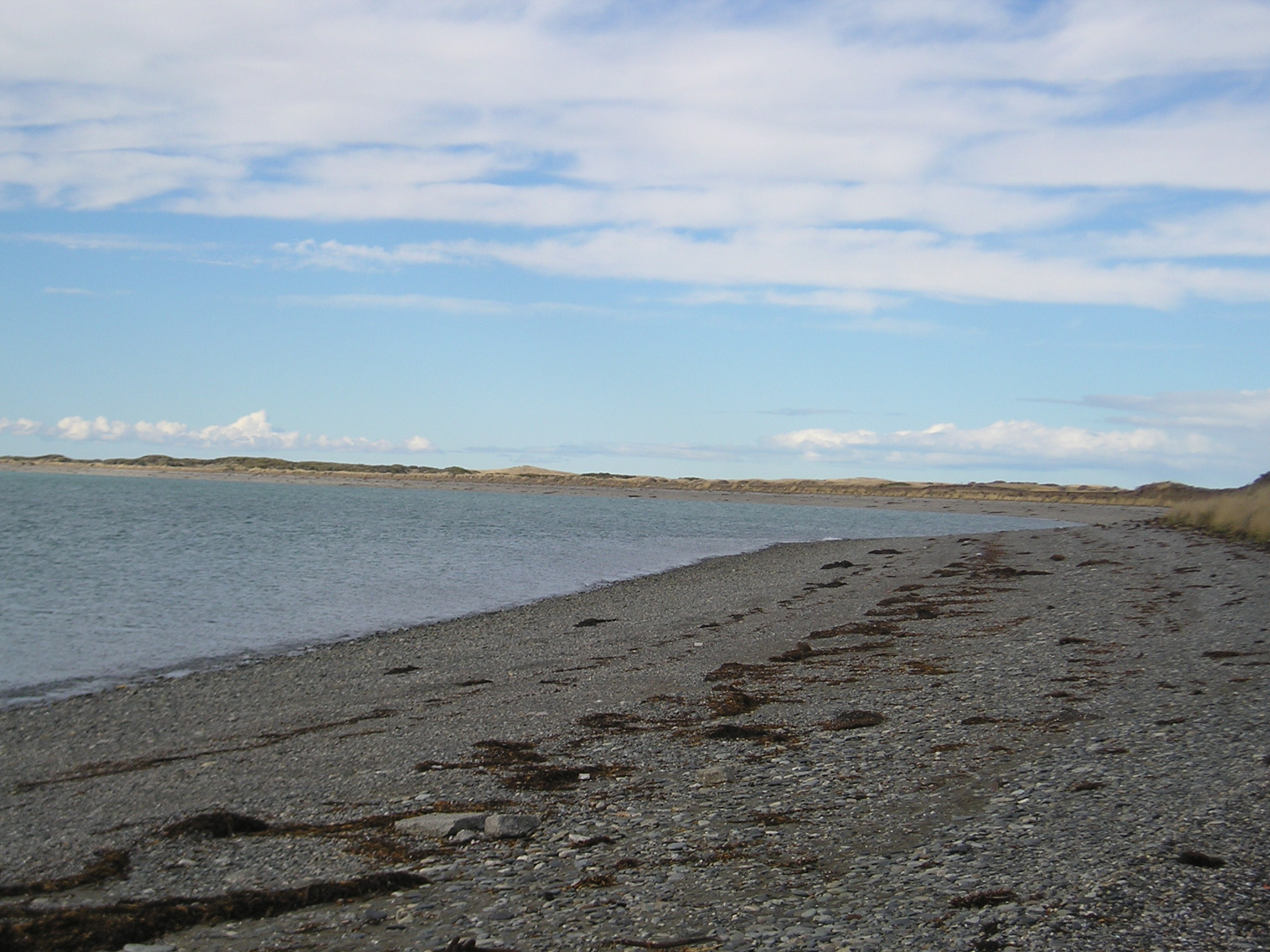 Southern shore of the Strait of Magellan at Punta Espora (opposite Punta Delgada)